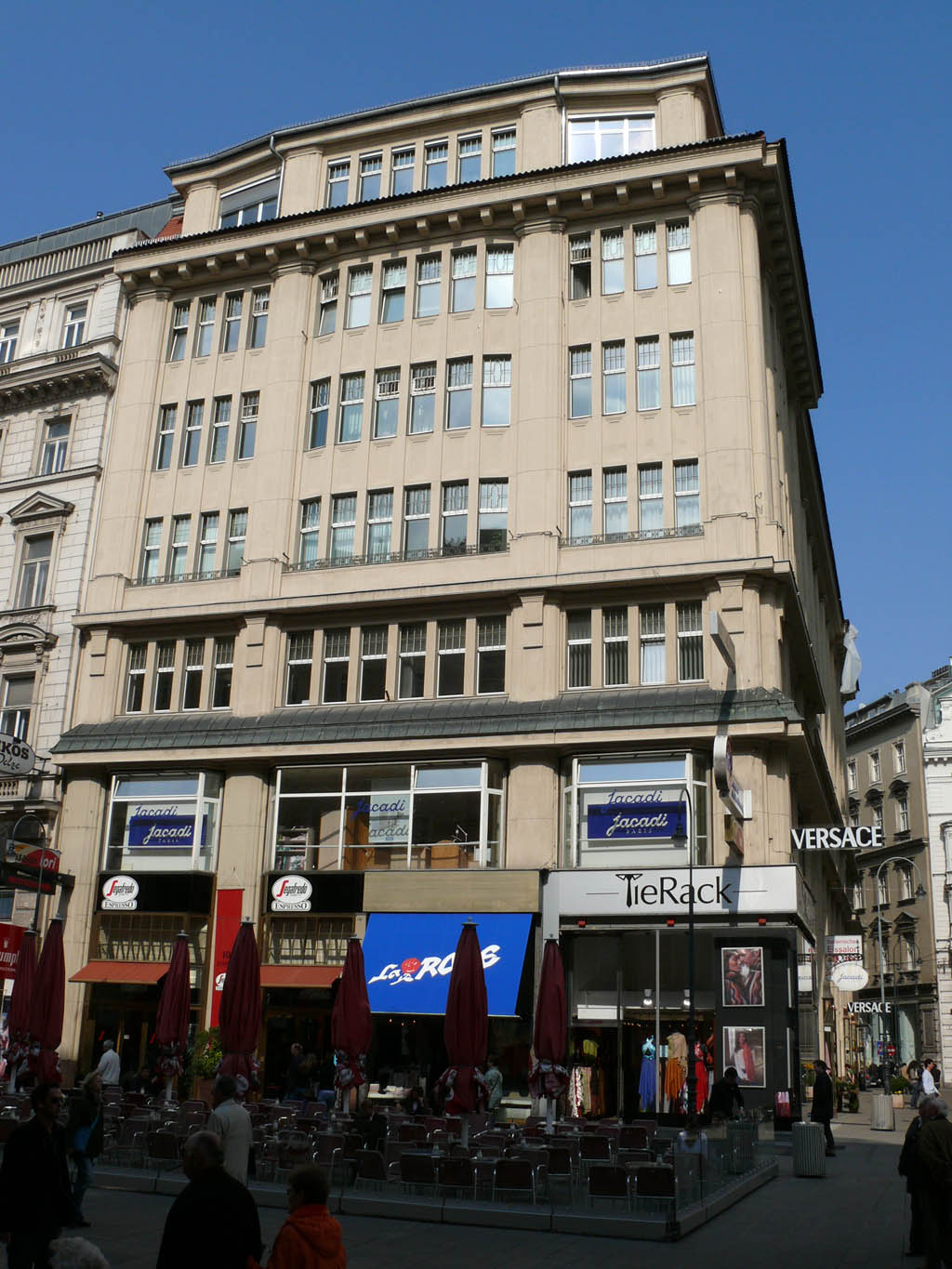 Trattnerhof 29